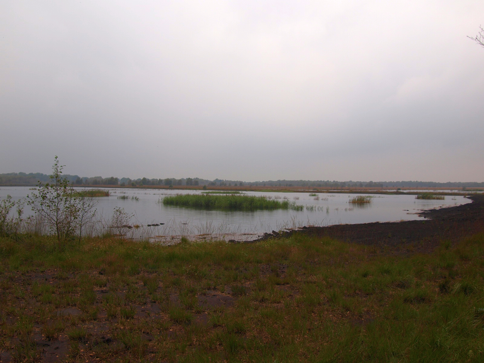 Großes Moor near Dätgen, Rendsburg-Eckernförde district, Schleswig-Holstein, Germany. Findspot of bog body Dätgen Man in year 1959.